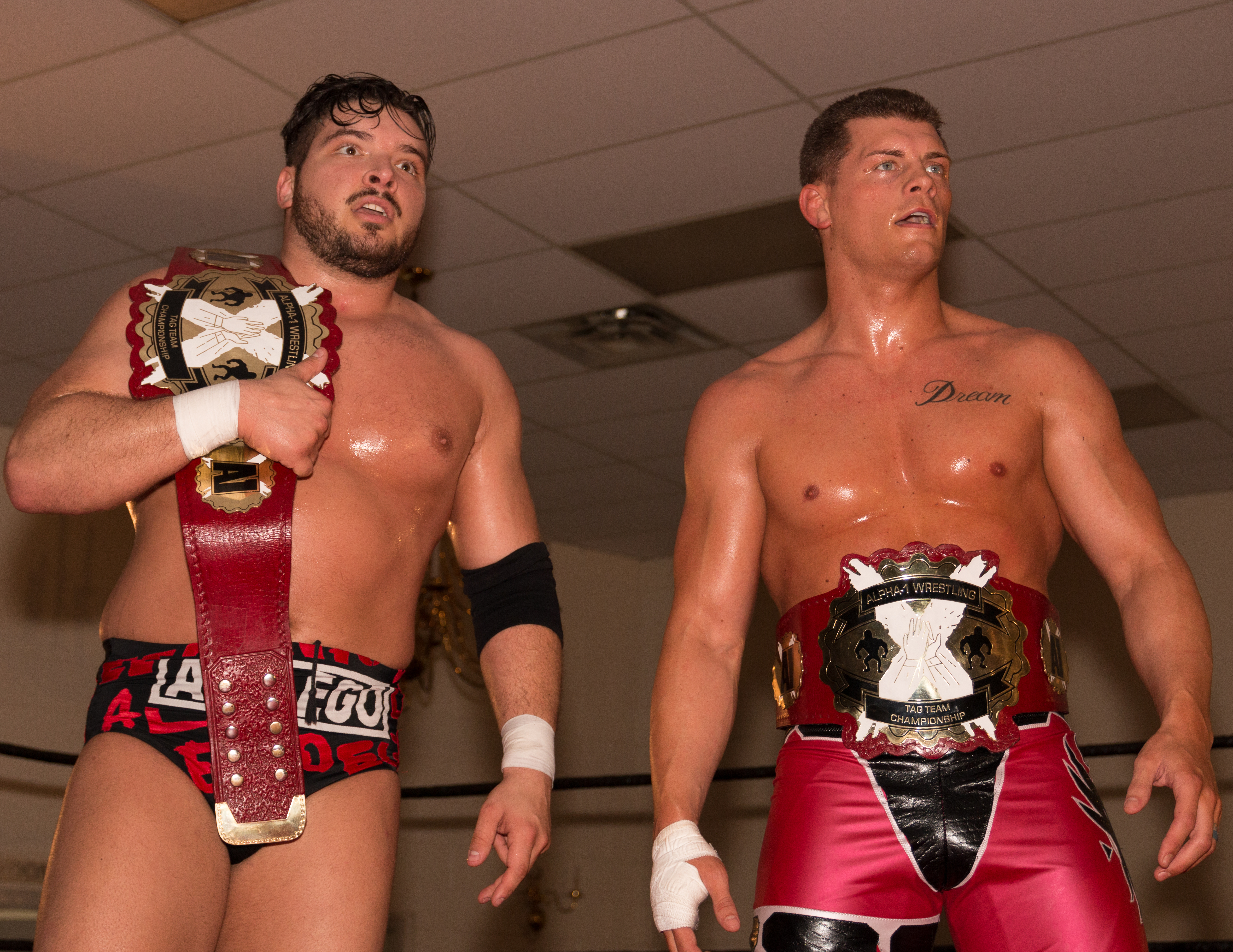 Ethan Page and Cody Rhodes with the Alpha-1 Tag Team championship belts in June 2017